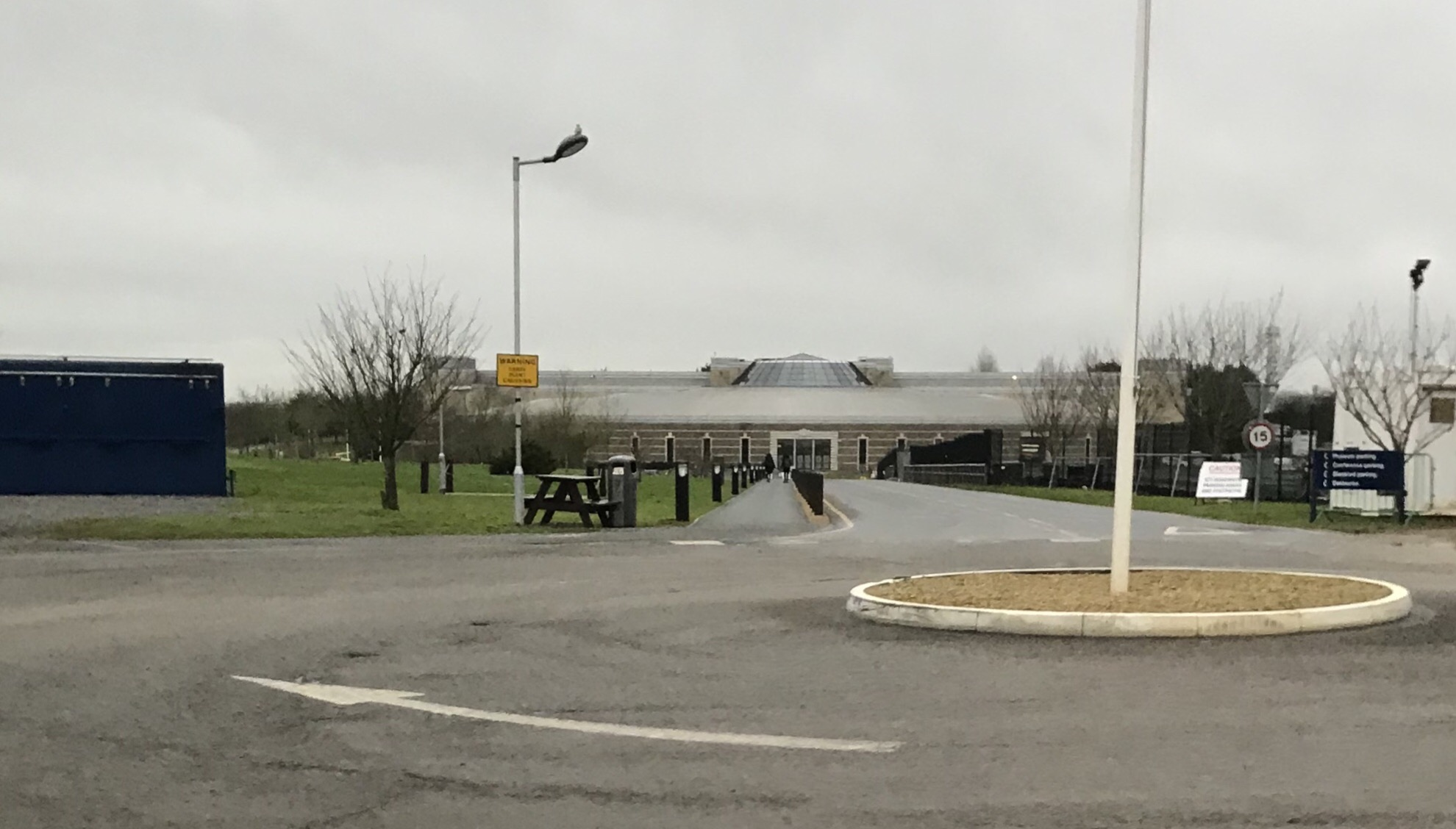 JLR, Gaydon. Outside View, outside entrance.